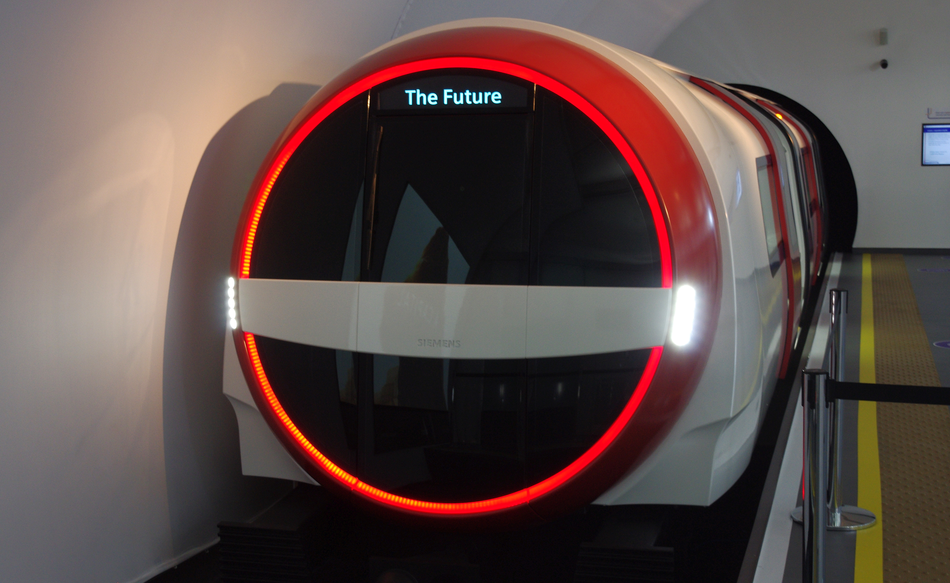 The Siemens Inspiro Metro mockup at the Going Underground exhibition at The Crystal.